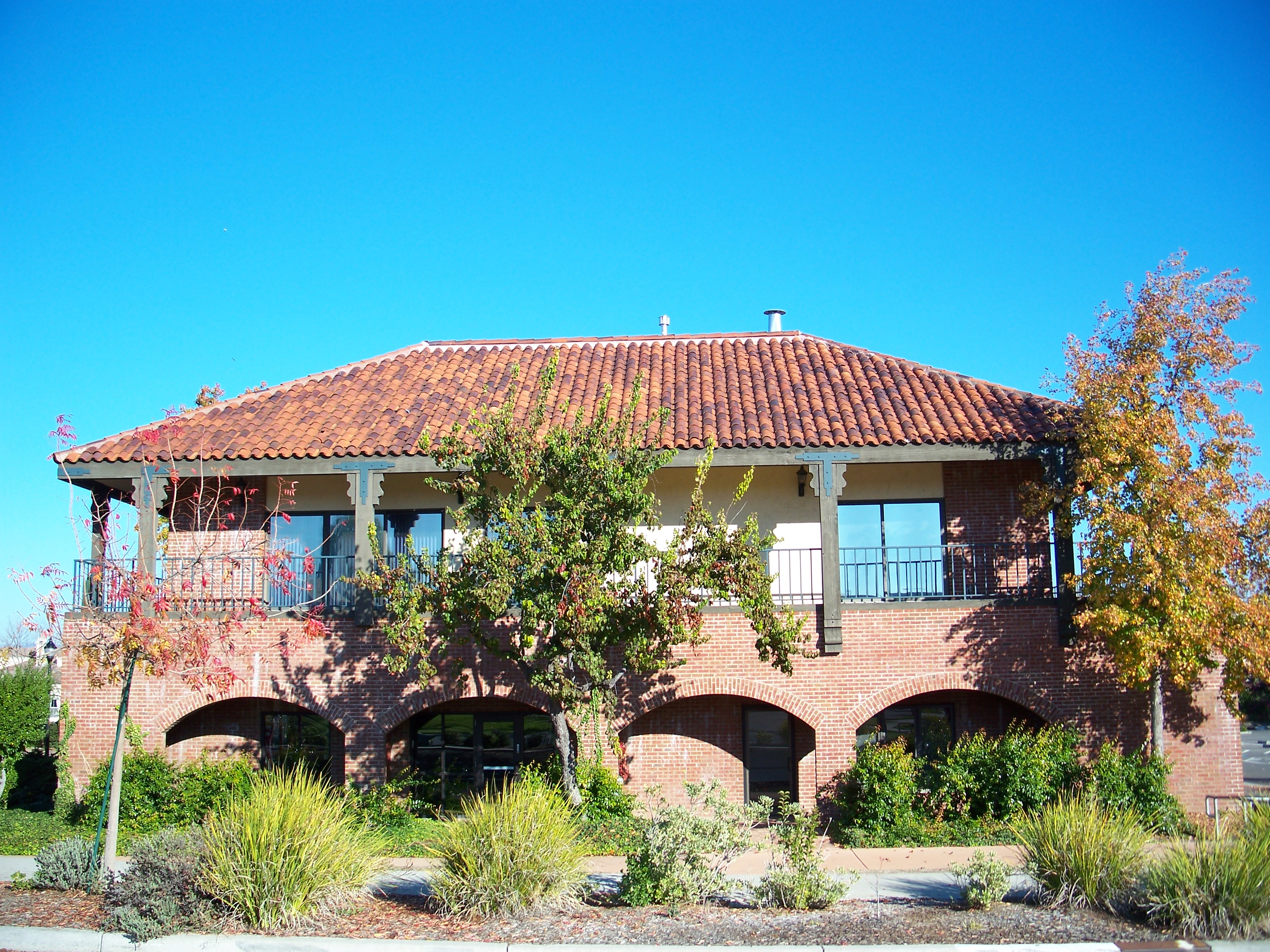 New administration building of Almaden winery. San Jose, California, USA More details about subject